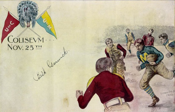 Souvenir program from 1897 for the Chicago–Michigan football rivalry game